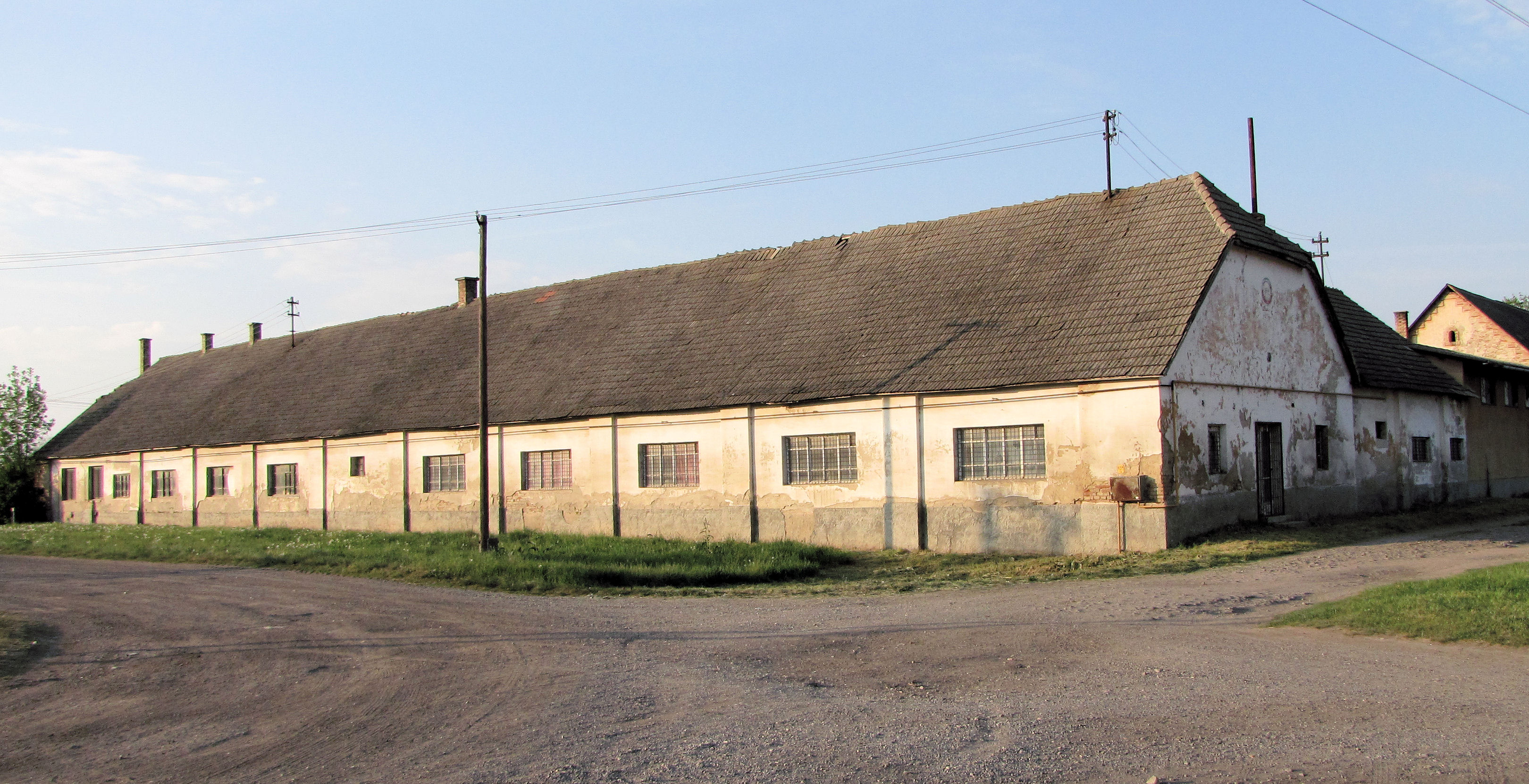 Előszállás, former sheep-cote, built in 1844.